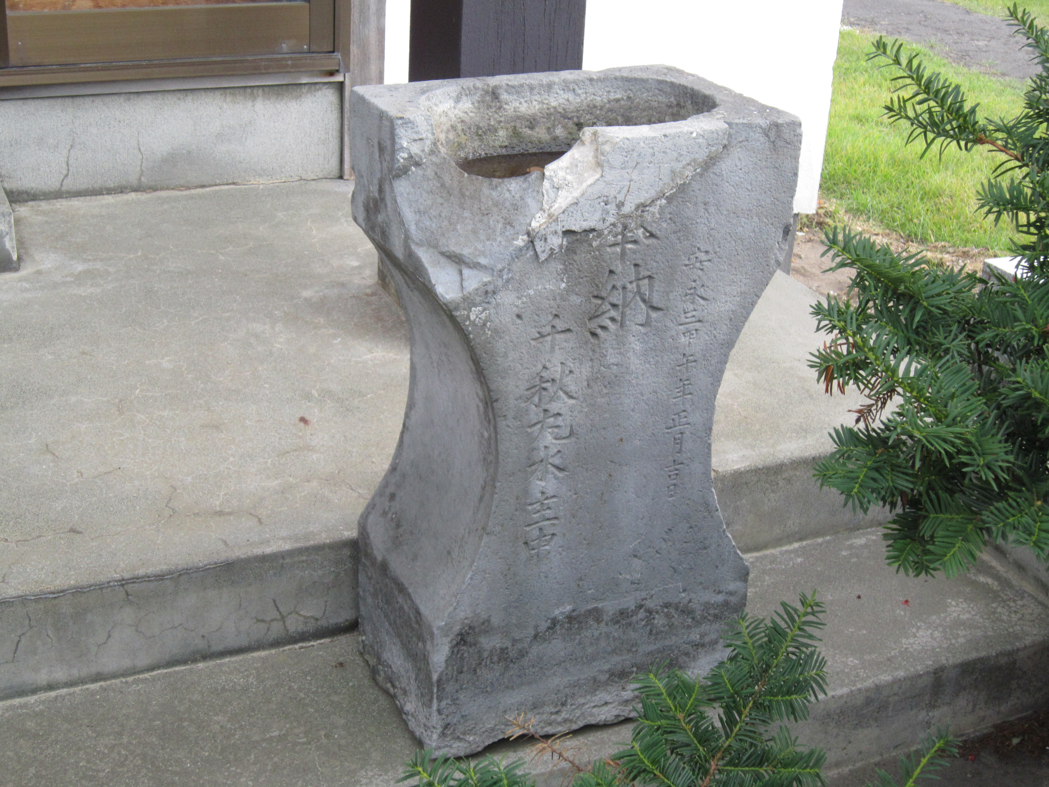 Chōzubachi of Kinryu-ji of Ishikari